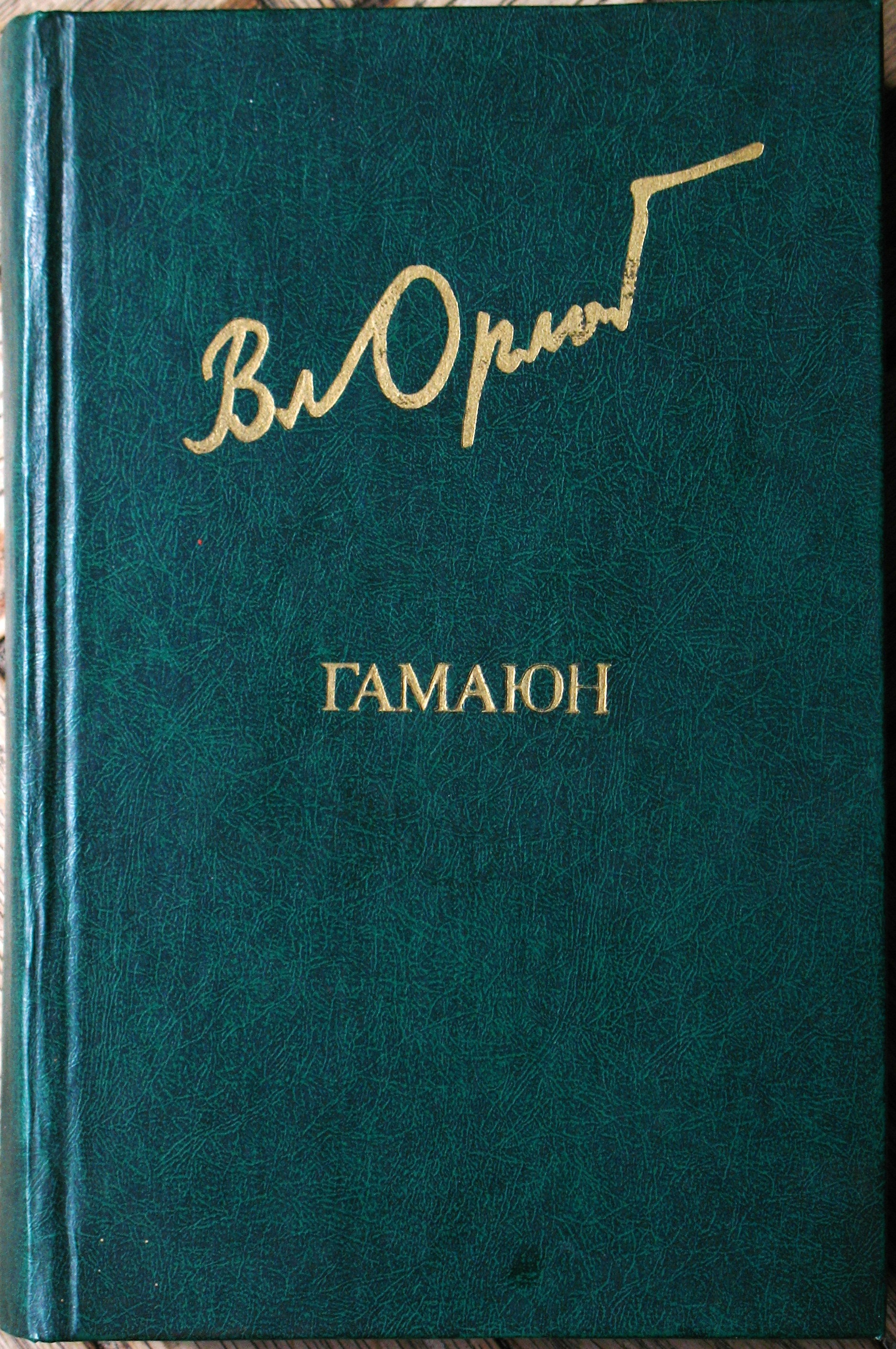 Vladimir Orlov. Book "Gamaun. Life of Aleksandr Blok", Moscow, Izvestia, 1981. Signature of Vladimir Orlov.